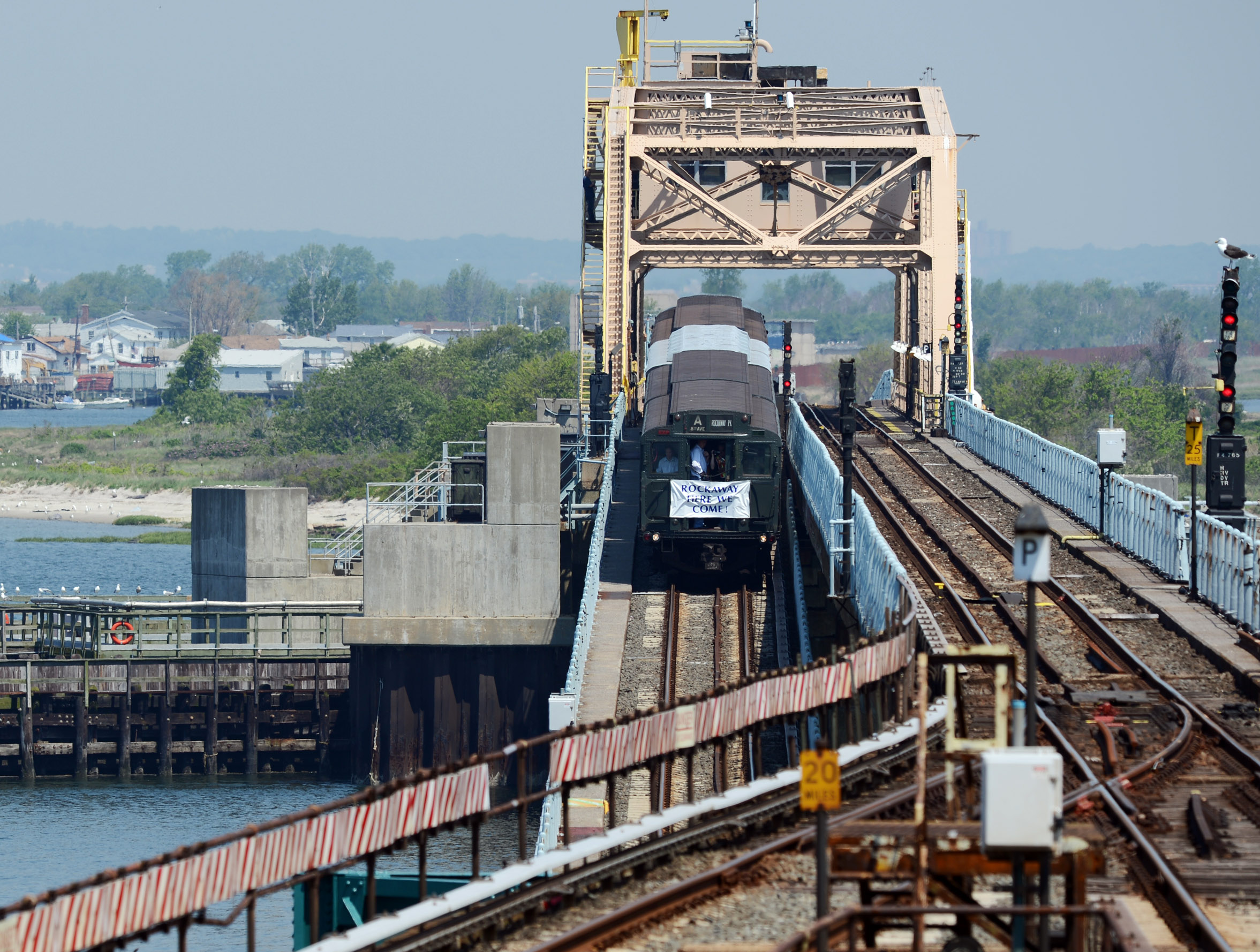 A ceremonial Nostalgia Train crosses the South Channel Bridge on its way to Rockaway Park on Thursday, May 30, 2013, marking the return of regular subway service to the Rockaways after Hurricane Sandy. Photo: MTA New York City Transit / Marc A. Hermann